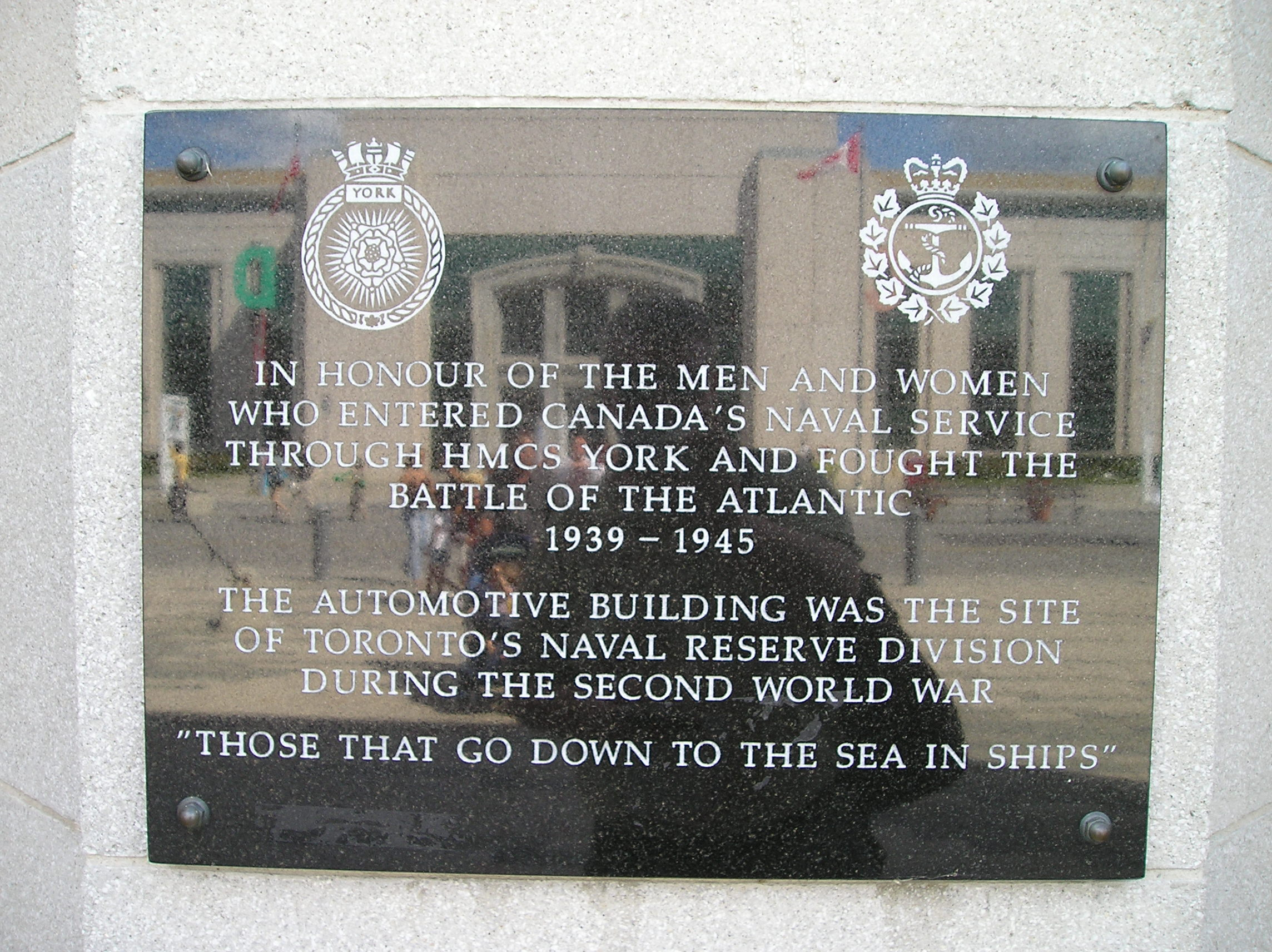 Commemorative plaque for the HMCS York (which is actually the Automative Building, not an actual ship) on the grounds of the Cananadian National Exhibition. Image shot on September 1st 2005.